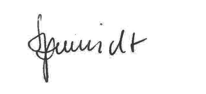 Signature of Siegfried J. Schmidt, German Communication Theorist